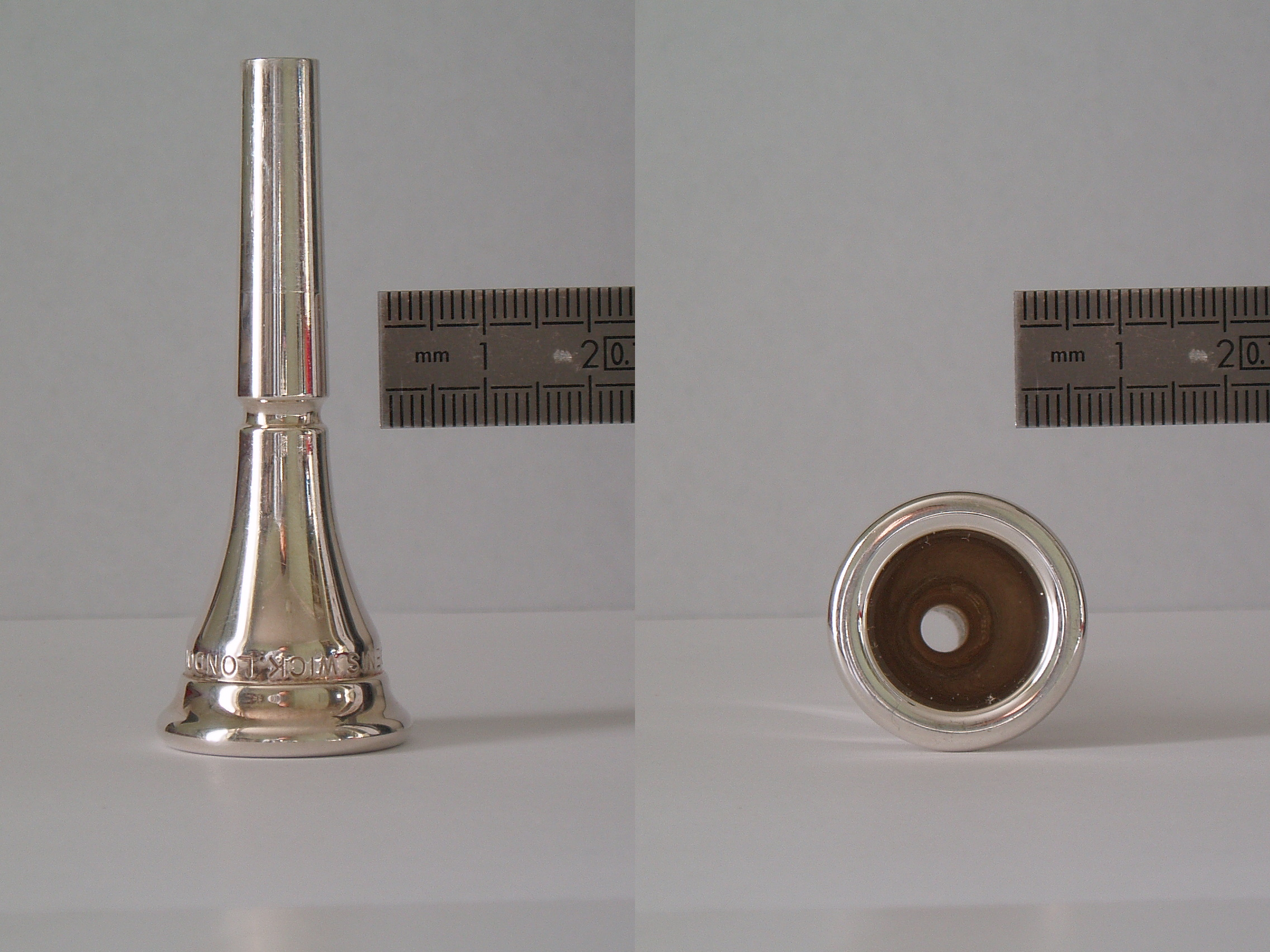 French horn mouthpiece - Embouchure de cor - Modele 7N Denis Wick